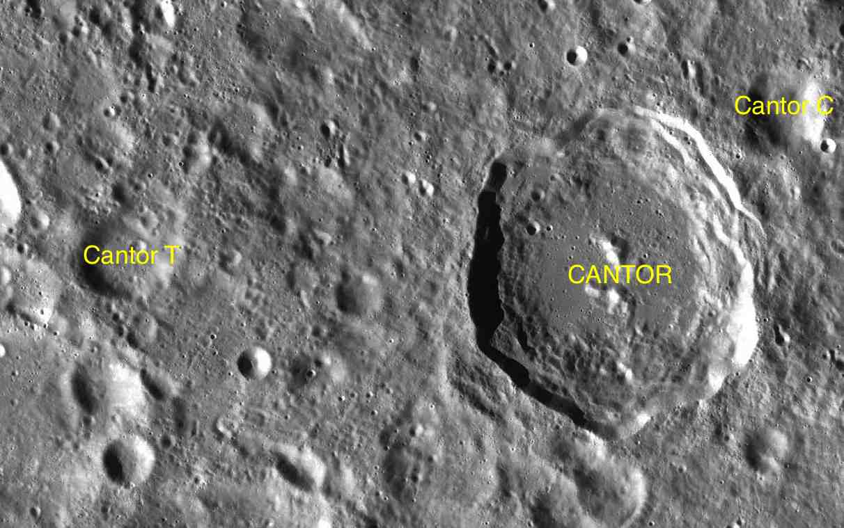 Part of the chart LAC-30 used for the presentation